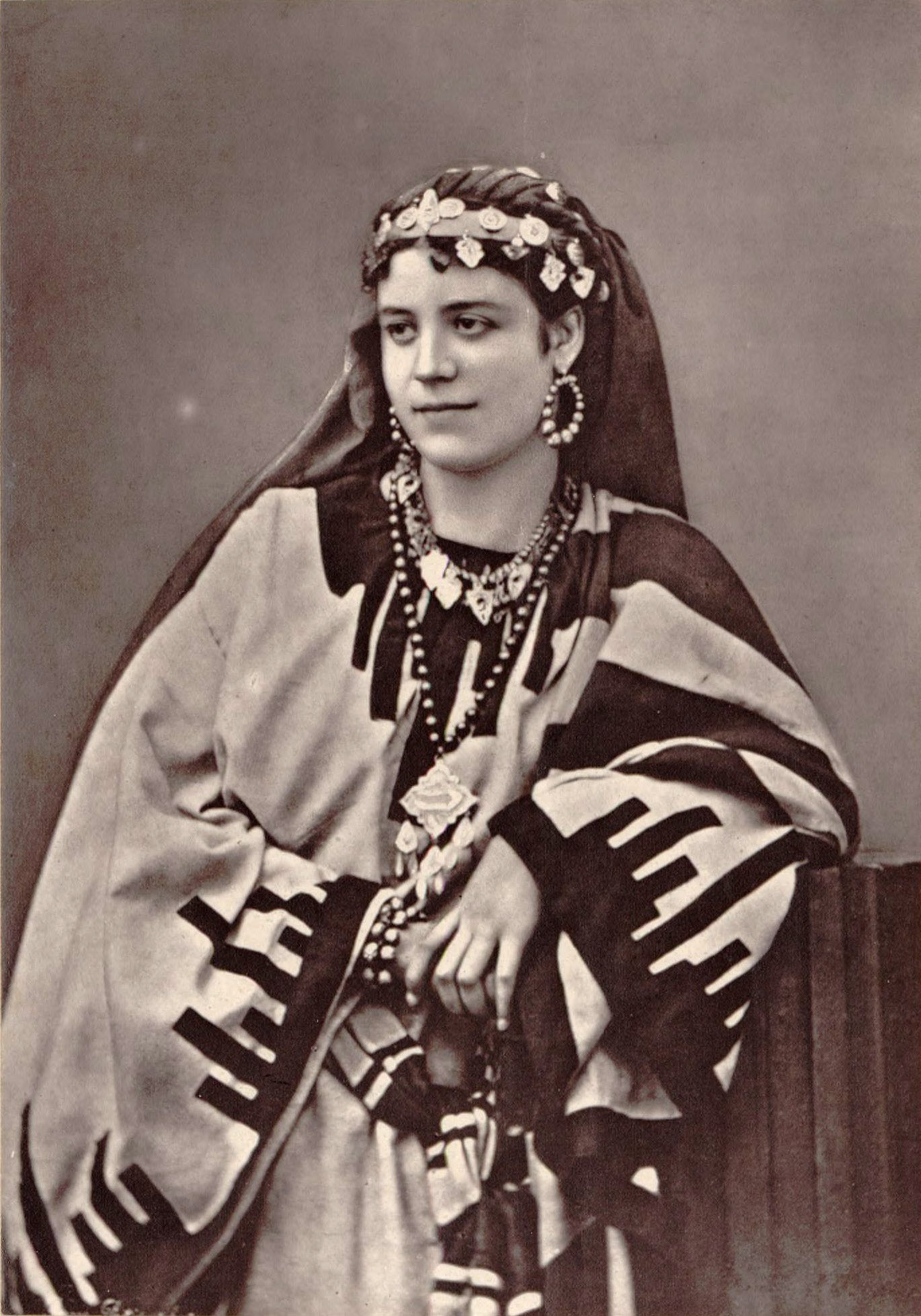 Rosine Bloch (1844–1891), French mezzo-soprano, as Azucena in Il trovatore